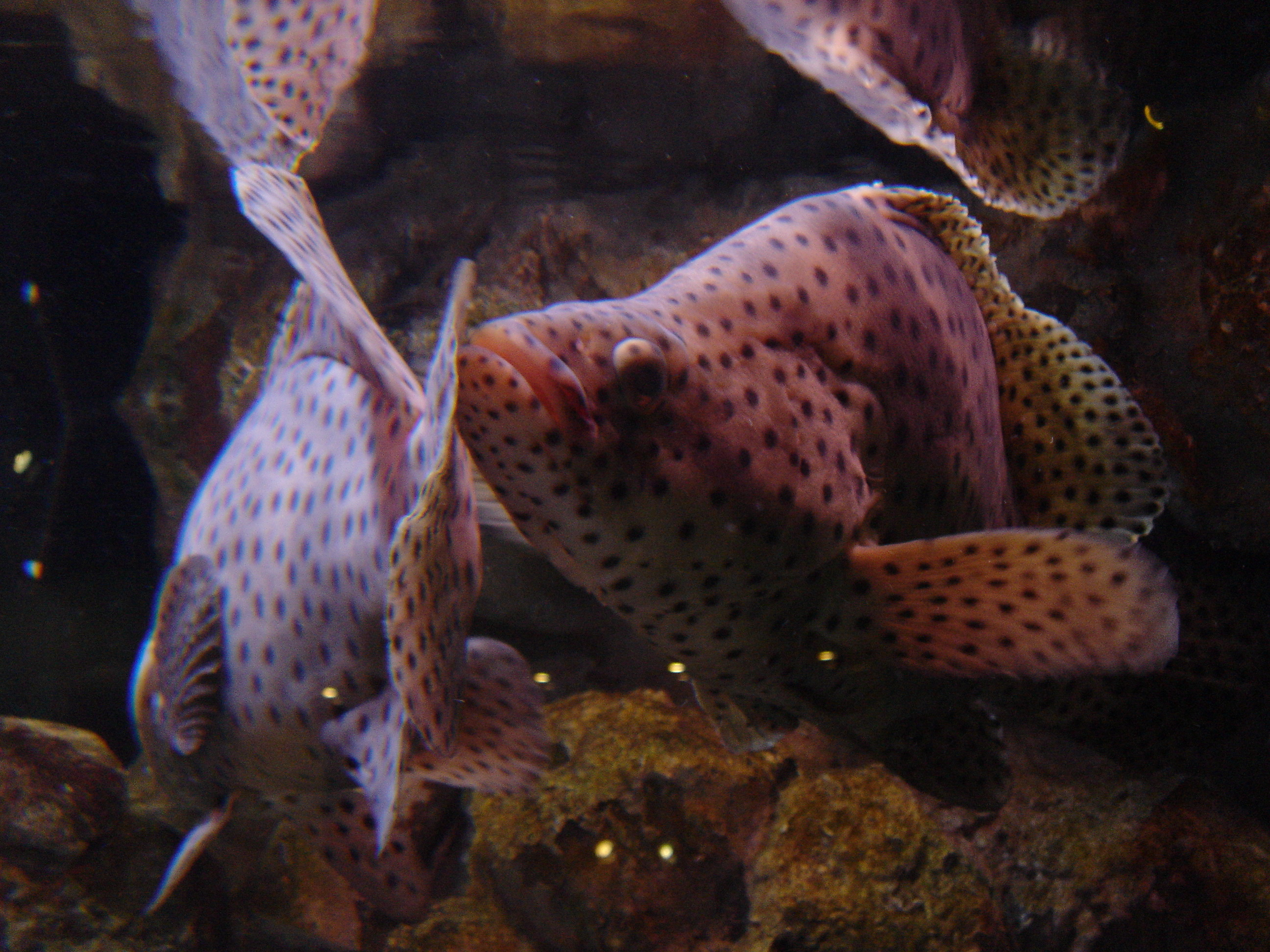 Detail of specimen labeled Spotted Barramundi; Reef HQ, Townsville, Queensland. The species involved is the humpback grouper (Chromileptes altivelis)